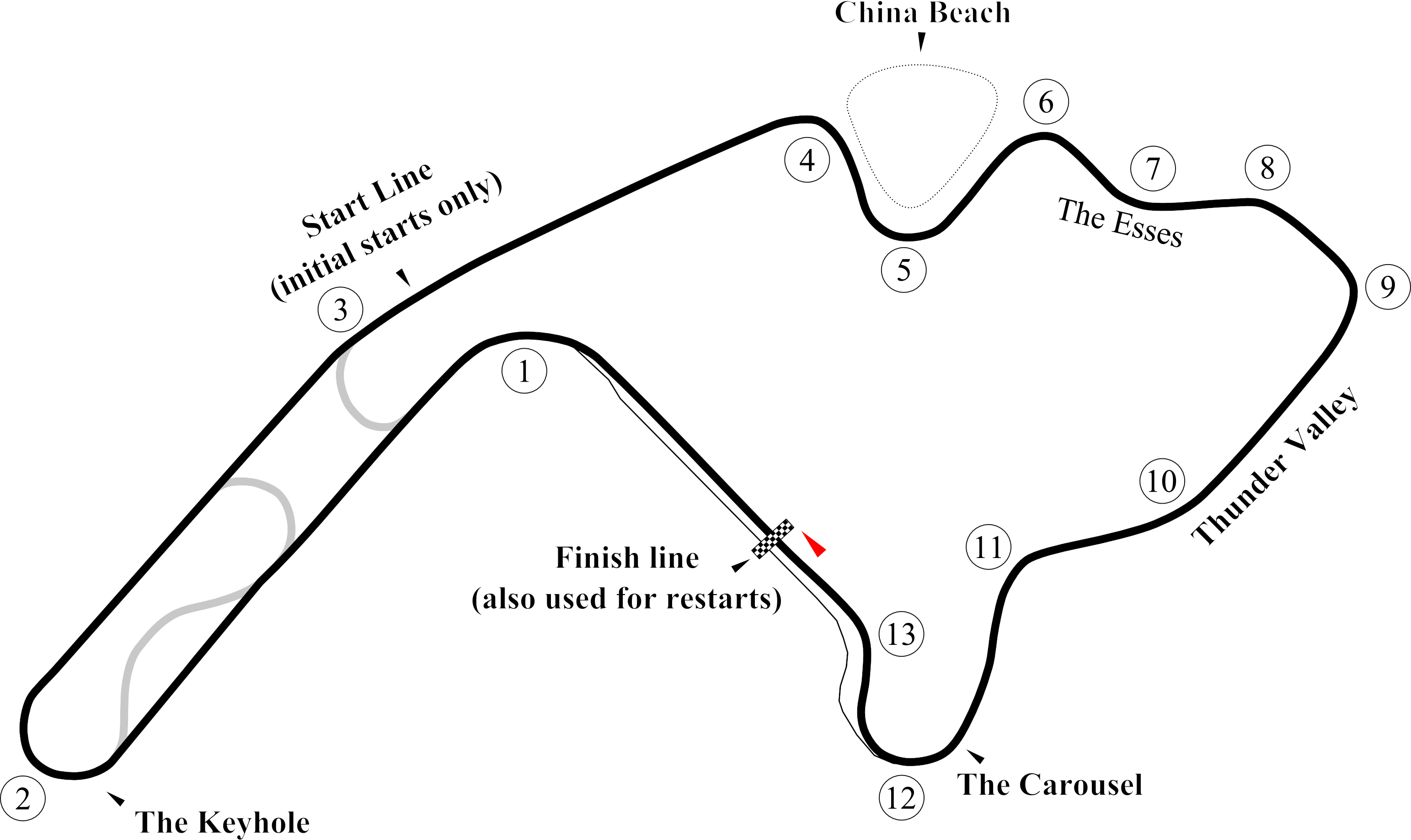 Version of Image:Mid-Ohio.svg for browsers like IE7 that don't support SVG.